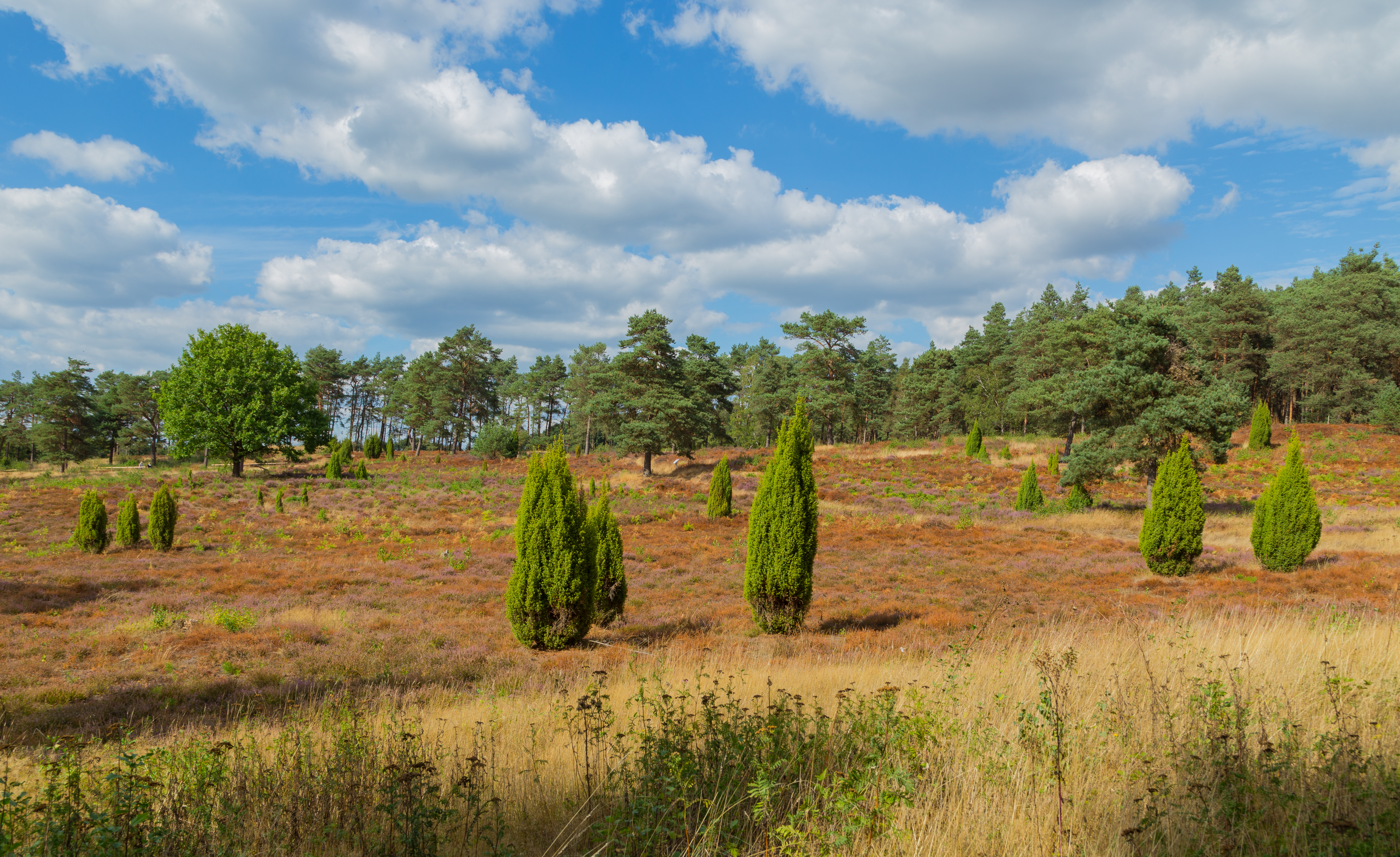 The Plaggenschale juniper grove (Wacholderhain Plaggenschale) near Plaggenschale, district of Merzen, Lower Saxony, Germany. It is a heathland named after the common juniper (Juniperus communis) and belongs to the Terra.vita Nature Park (Natur- und Geopark Terra.vita). The site is also famous for its 111 mound graves (tumuli) from the Iron Age and the Bronze Age.